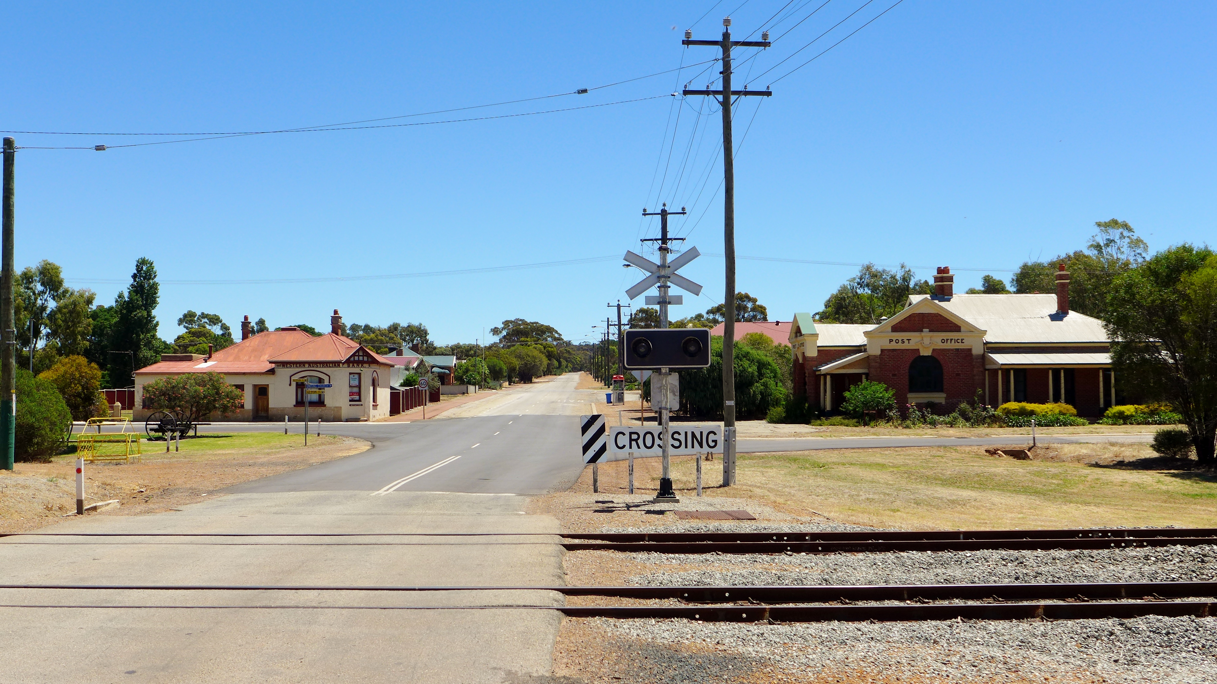 View of Cuballing West Road, Cuballing, Western Australia, looking west. In the foreground is the Great Southern Railway, at left is the former Western Australian Bank building, at right is the former Post Office, and in the background are various public buildings.